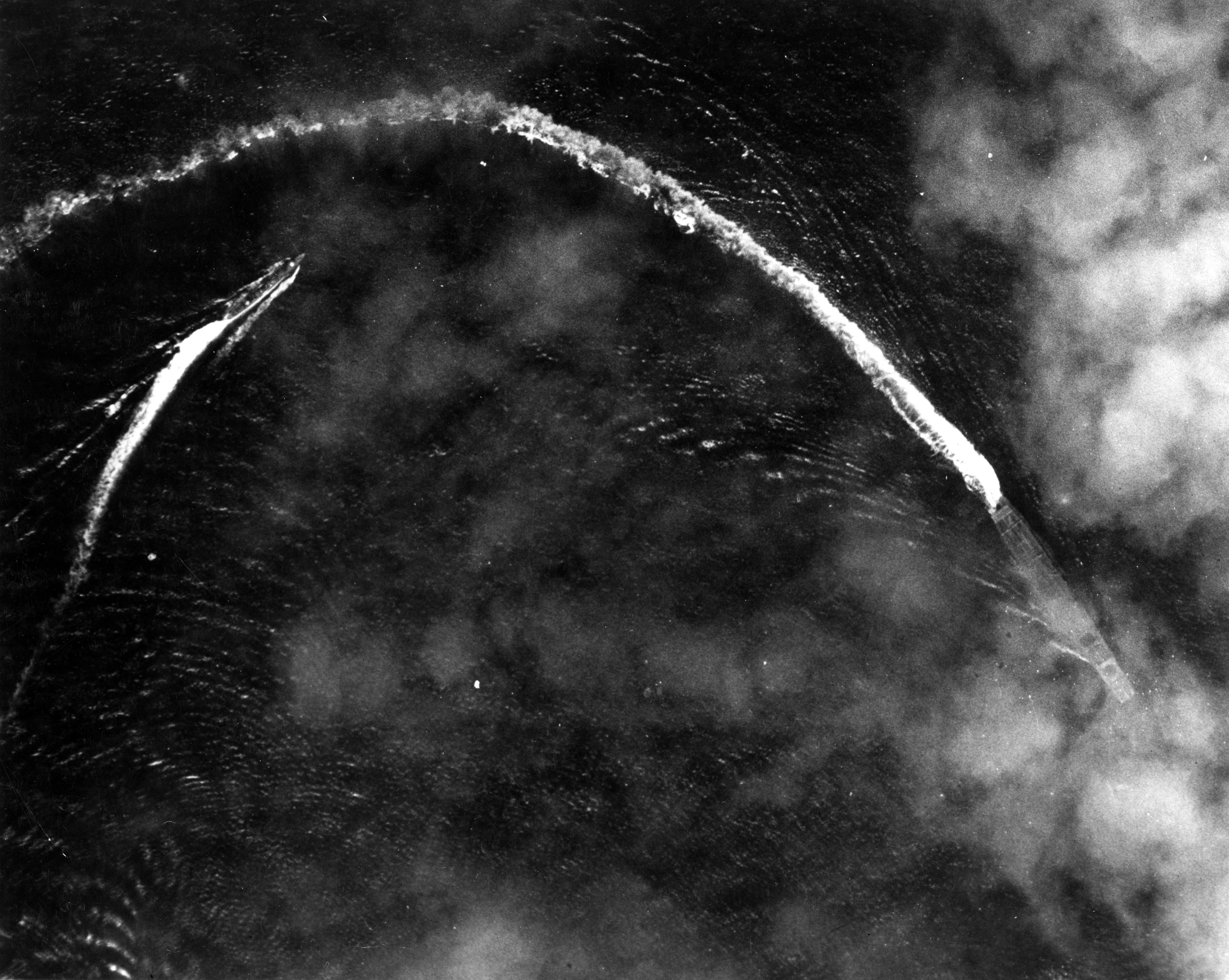 The Japanese aircraft carrier Akagi and a destroyer (probably Nowaki) maneuvering below thin clouds while under high-level bombing attack by U.S. Army Air Forces Boeing B-17E Flying Fortress bombers, shortly after 0800 hrs, 4 June 1942. No aircraft are visible on her flight deck and her forward elevator is in the down position. Akagi launched fighters at 0808 hrs and 0832 hrs. The photo was probably shortly taken after the 0808 hrs launch.